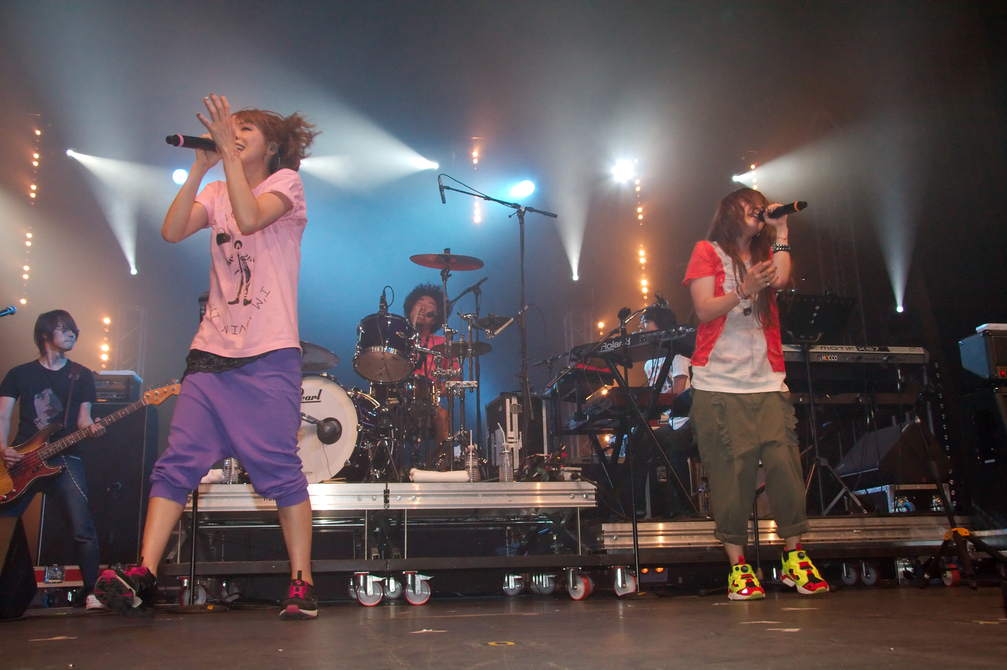 Puffy AmiYumi live at Japan Expo 2009 (Paris, France)